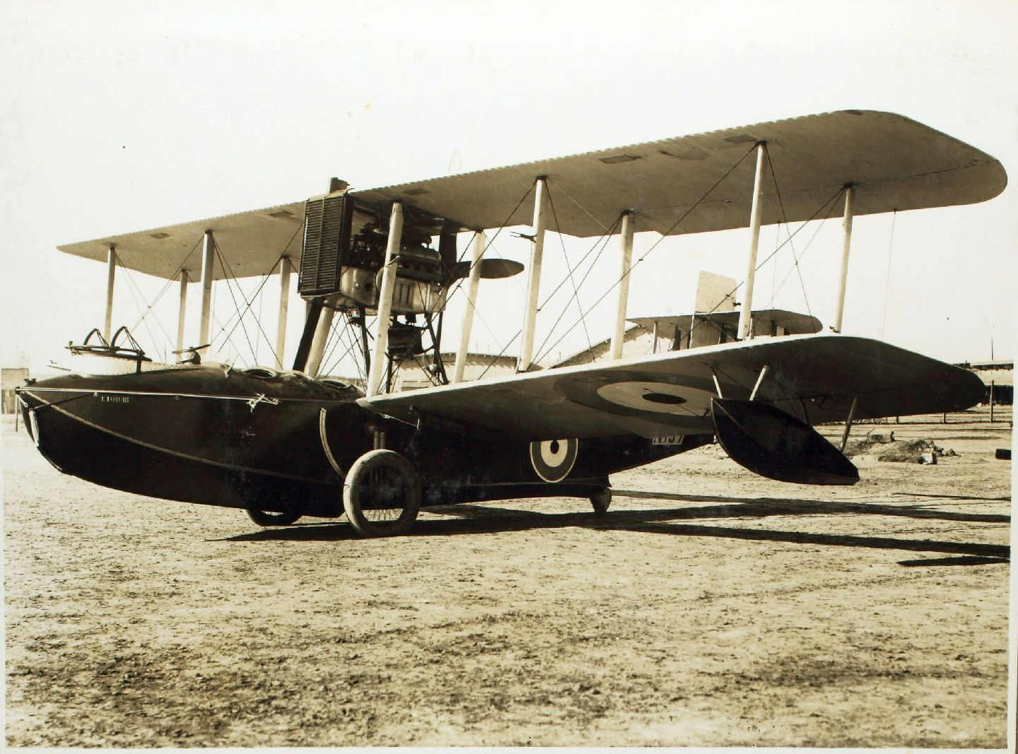 Vickers Viking Amphibian at Hinaidi